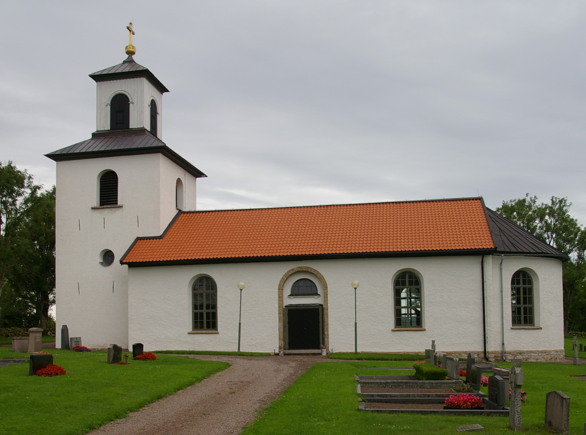 Segerstads kyrka (Swedish:Church of Segerstad) in Västergötland, Sweden.